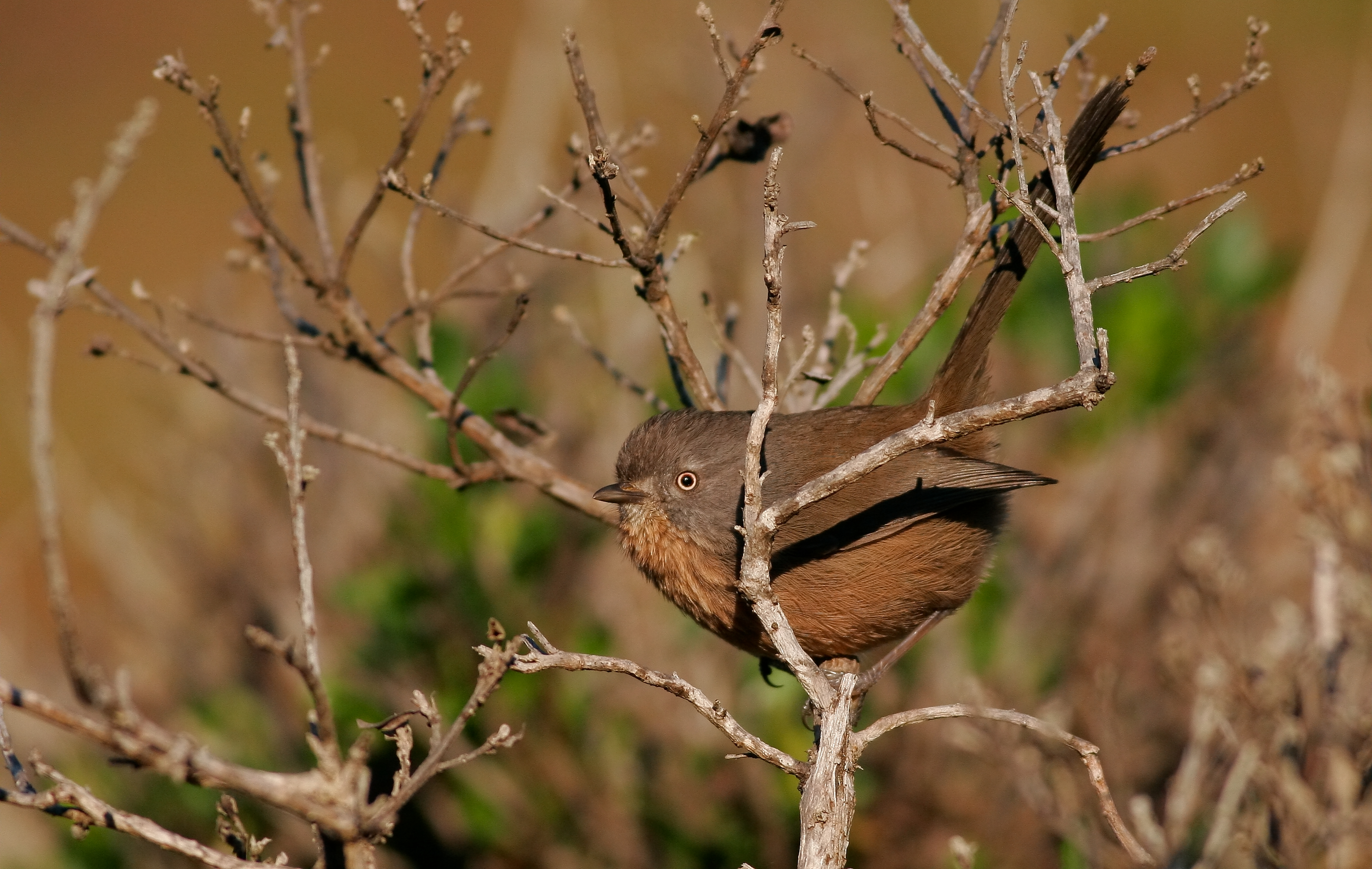 Wrentit in Marin County, California